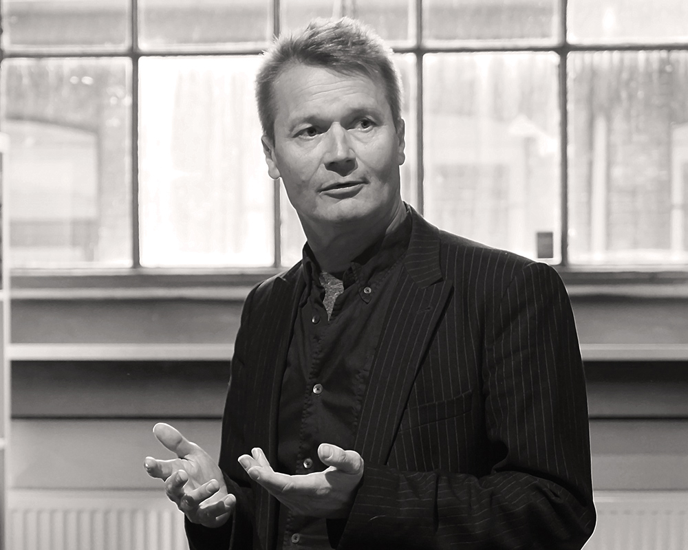 Erik Steffensen - Danish photographer, writer and professor at Royal Danish Academy of Fine Arts, - here at Fotografisk Center, Copenhagen, Denmark - March 2017